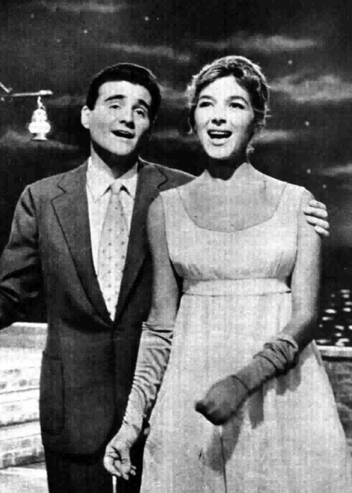 Cosetta Greco and Teddy Reno in an Italian TV show